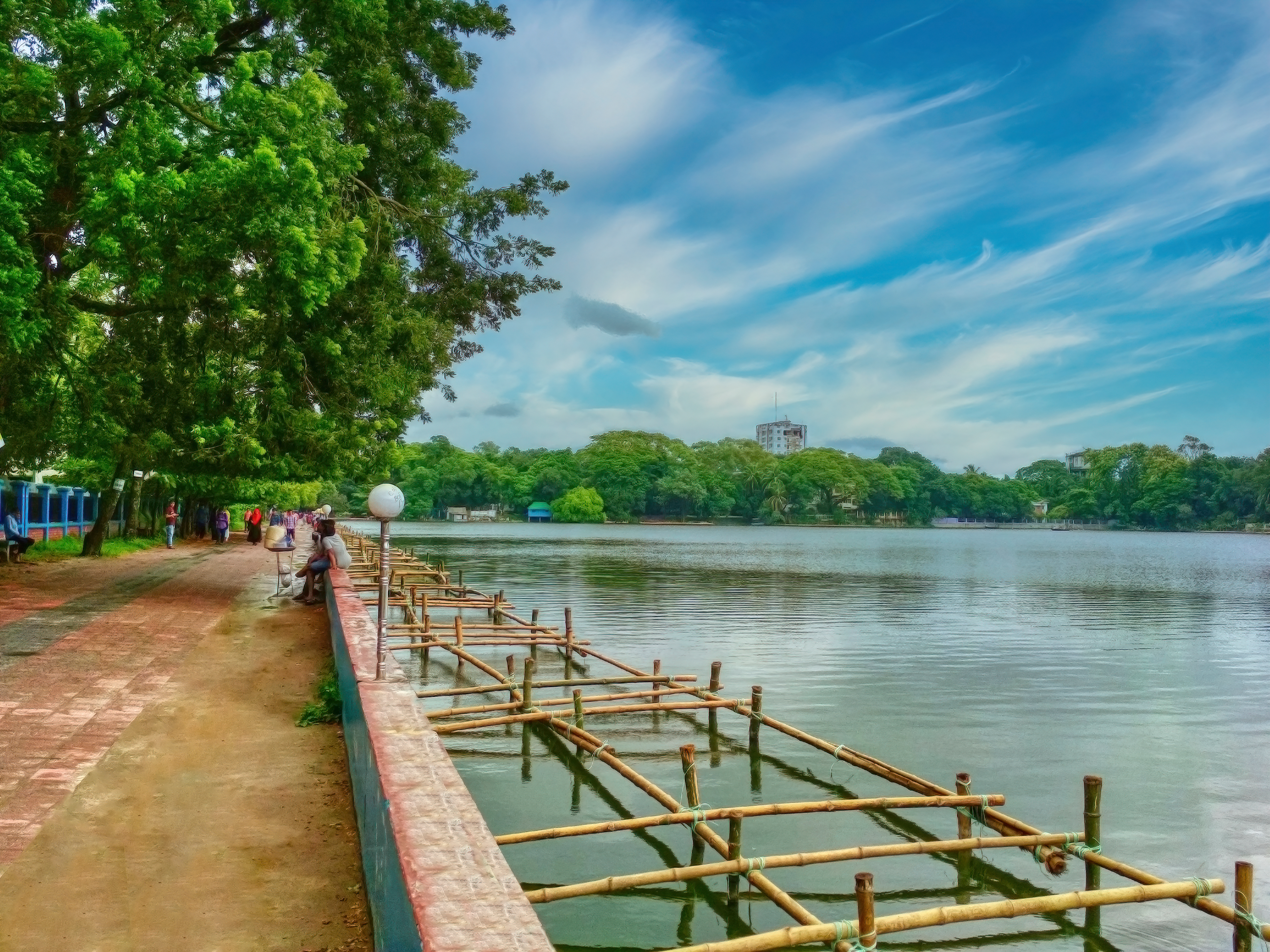 Dharmasagar is a pond or reservoir in Comilla, Bangladesh.